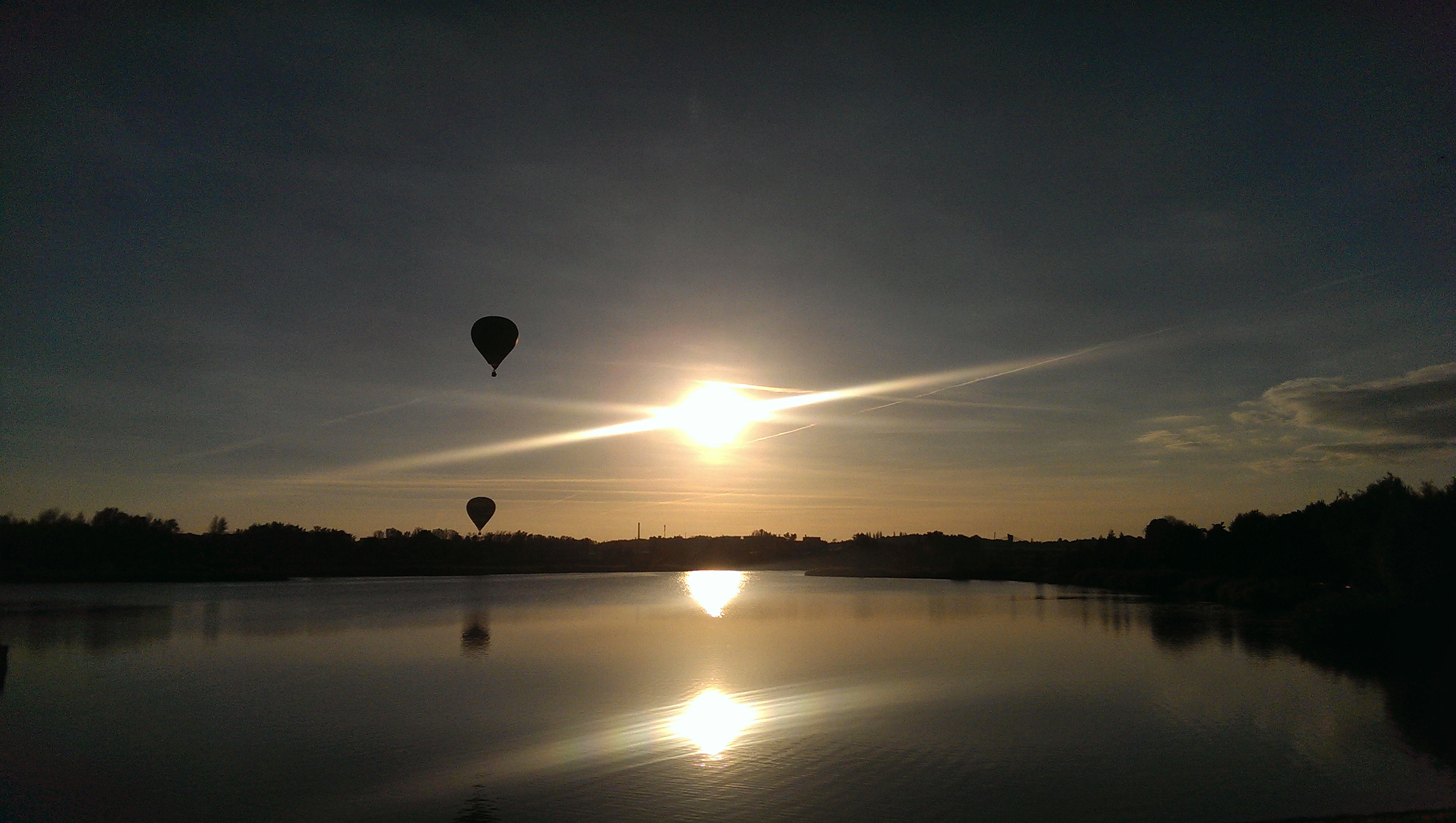 Bagry lake in Cracow